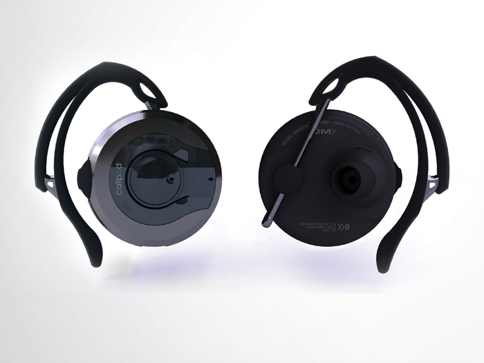 Talk on your mobile phone without wires using the Dragon® Bluetooth® headset. With a 328+ ft (100m) range, you can roam around your office or home without having to carry your phone. Dragon can also connect with your PC for Skype® calls simultaneously, allowing you to switch between your PC and mobile phone with a press of a button. With advanced dual-mic noise suppression®, the callers on the other end will enjoy crystal clear voice even if you are at an airport, noisy restaurant or car. Works with all Bluetooth-enabled mobile phones, computers and PDAs.